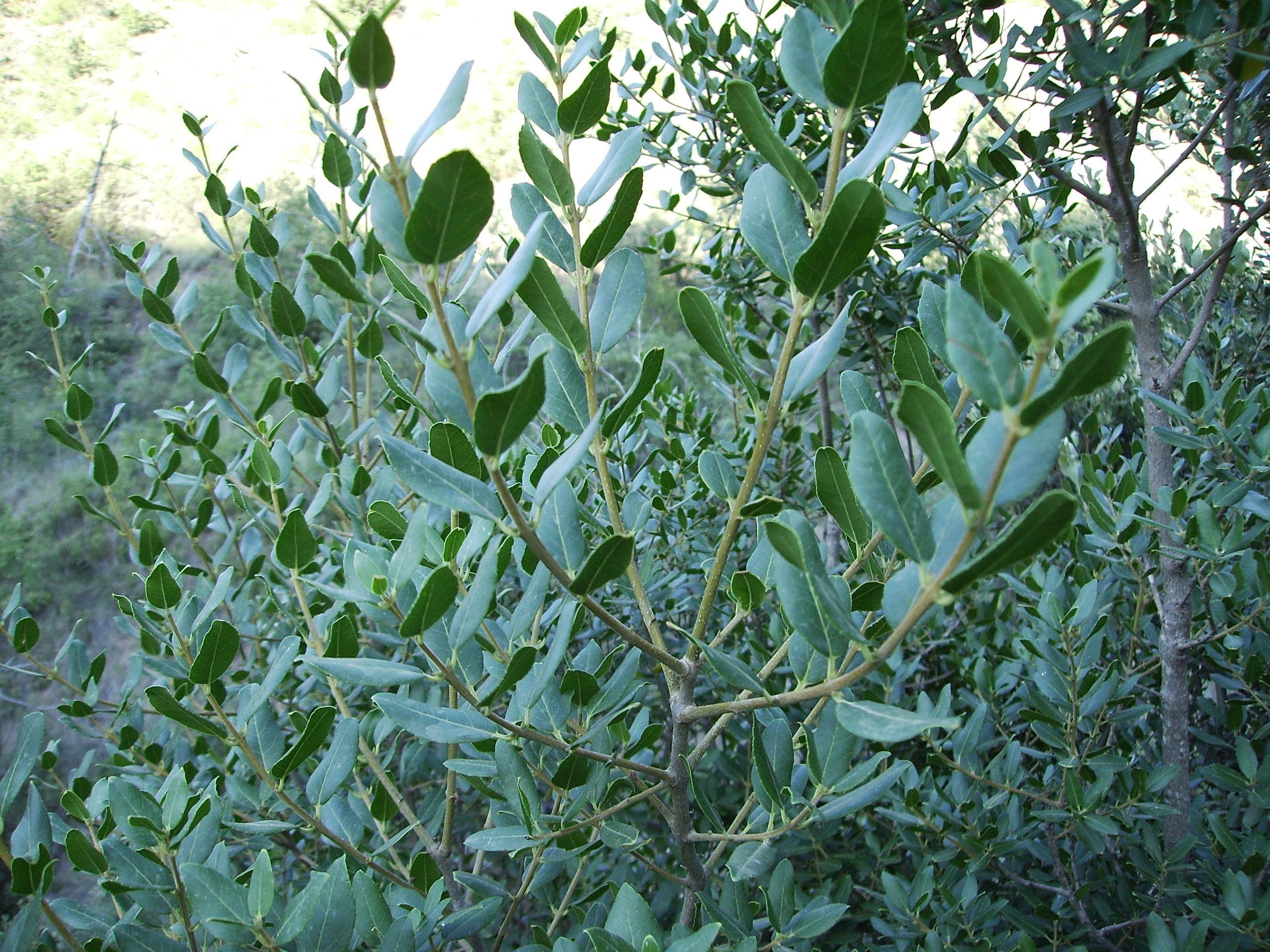 Image:Philyrea_latifolia.JPG My own work Phillyrea latifolia in july 2006 at Castelltallat, Catalonia